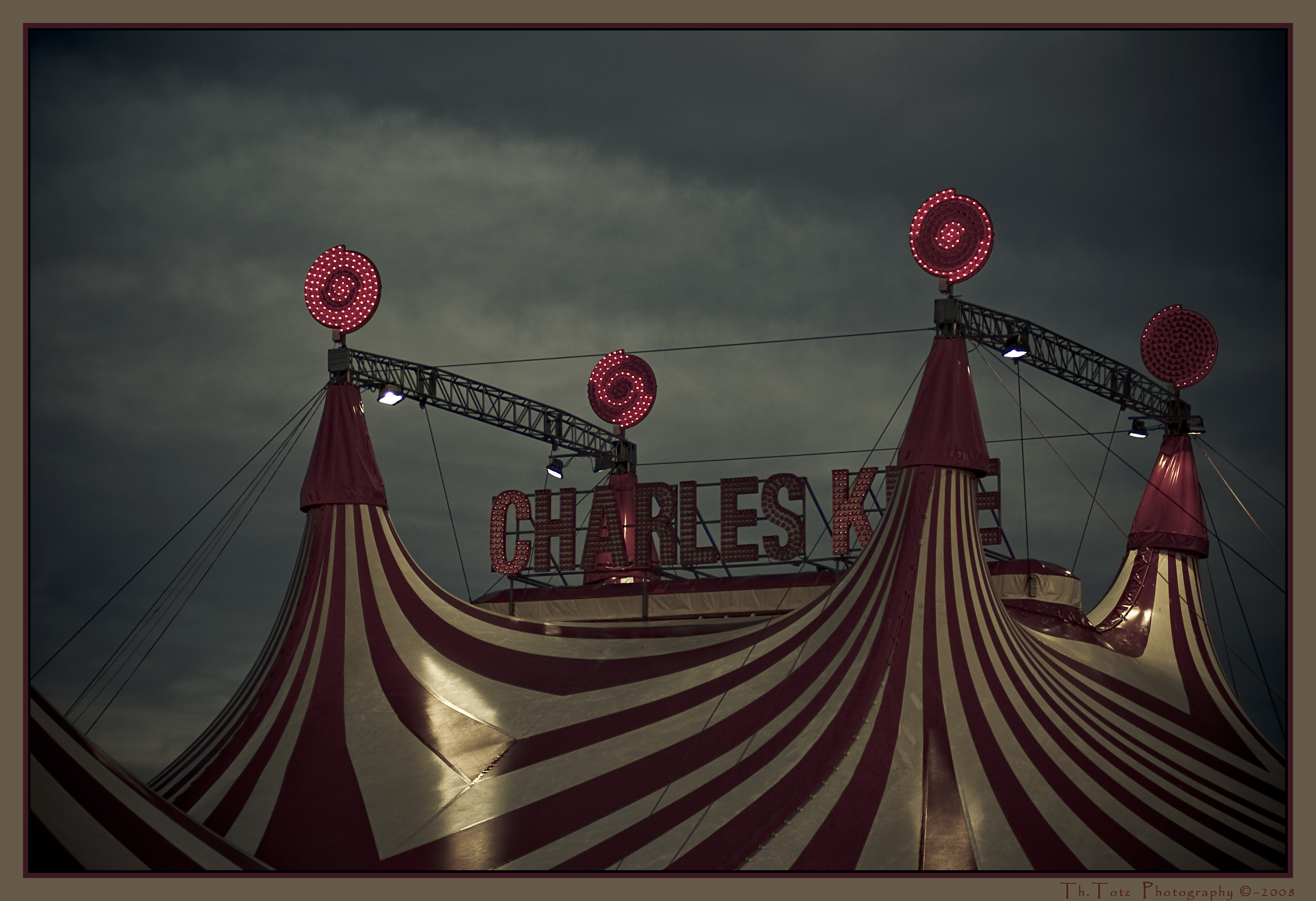 The circus Charlie Knie on Germany.